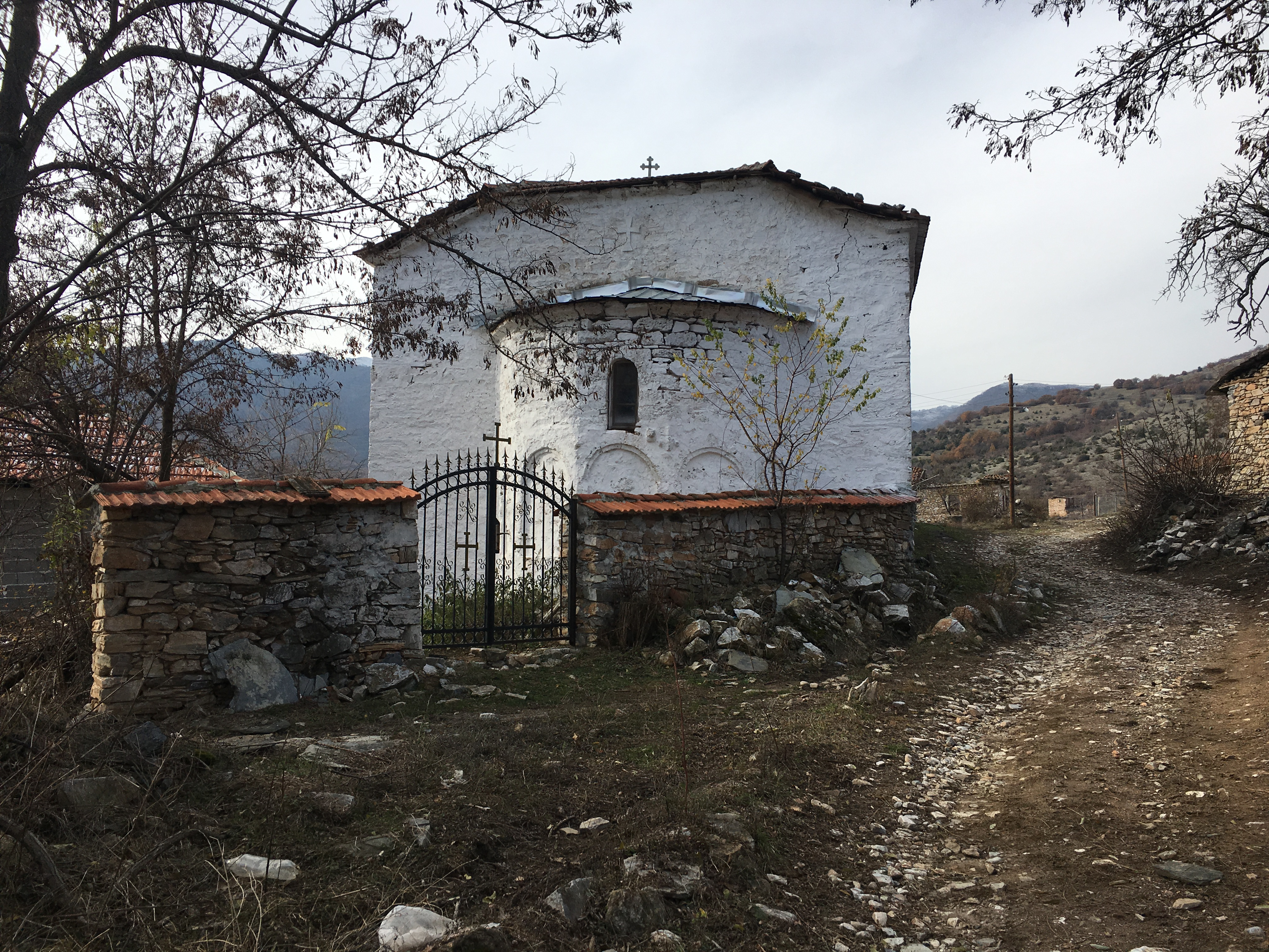 St. Athanasius Church in the village of Nikodin